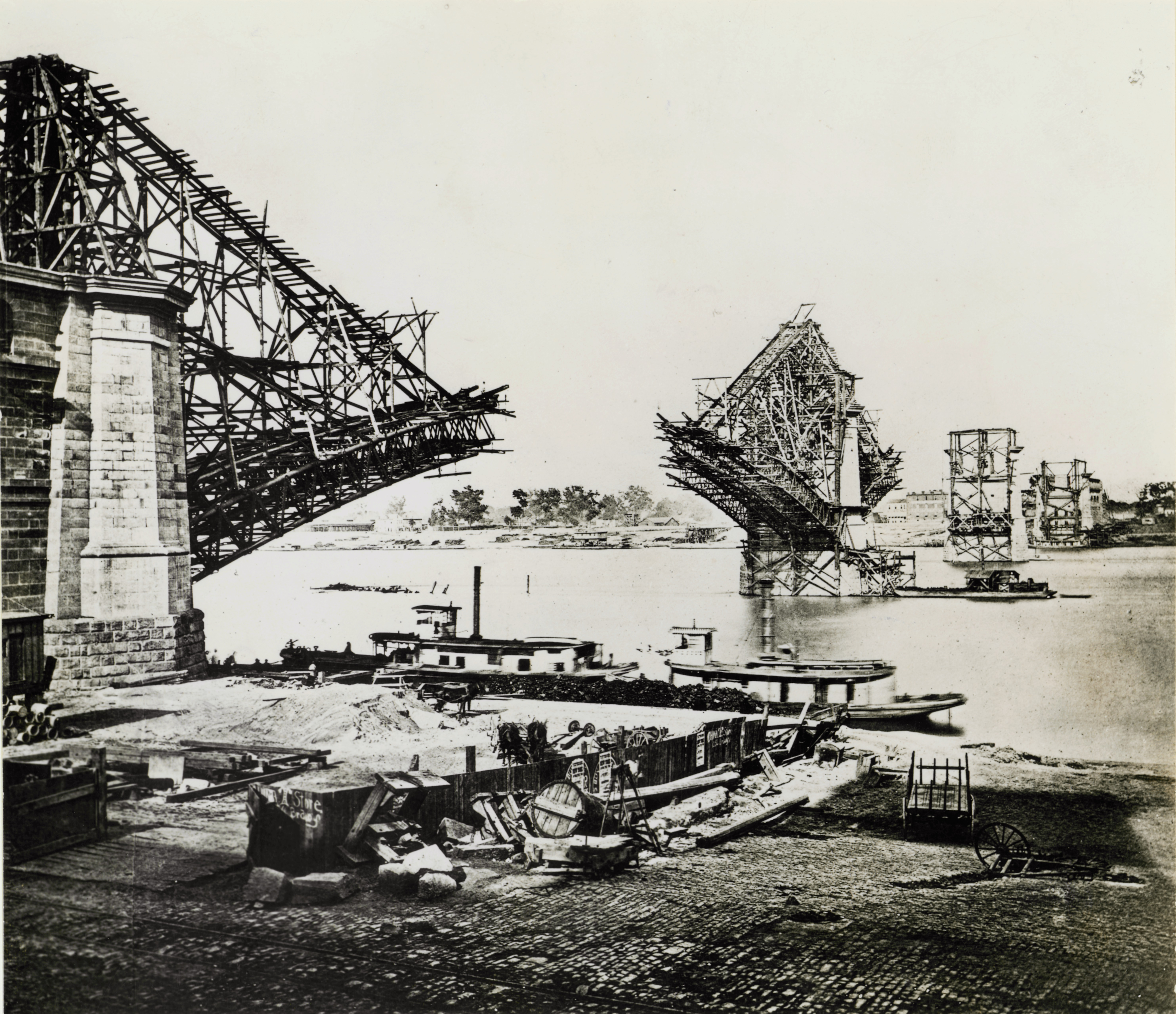 Title: Eads Bridge construction. Erection of west and center arches, view looking northeast, September 1873